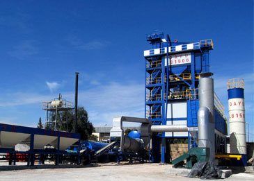 small picture of typical asphalt plant for road construction.